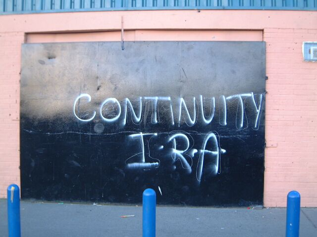 Photo taken by myself in Dublin 2004.